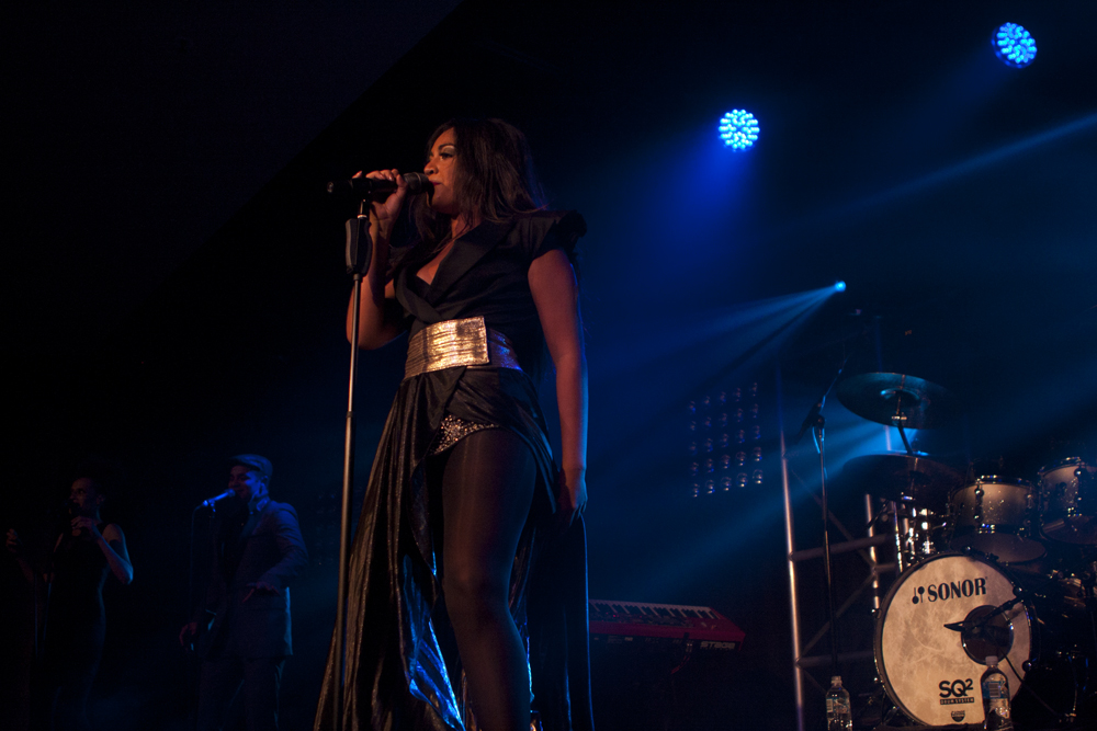 Jessica Mauboy at the Rock Canberra's showing of the Galaxy Tour